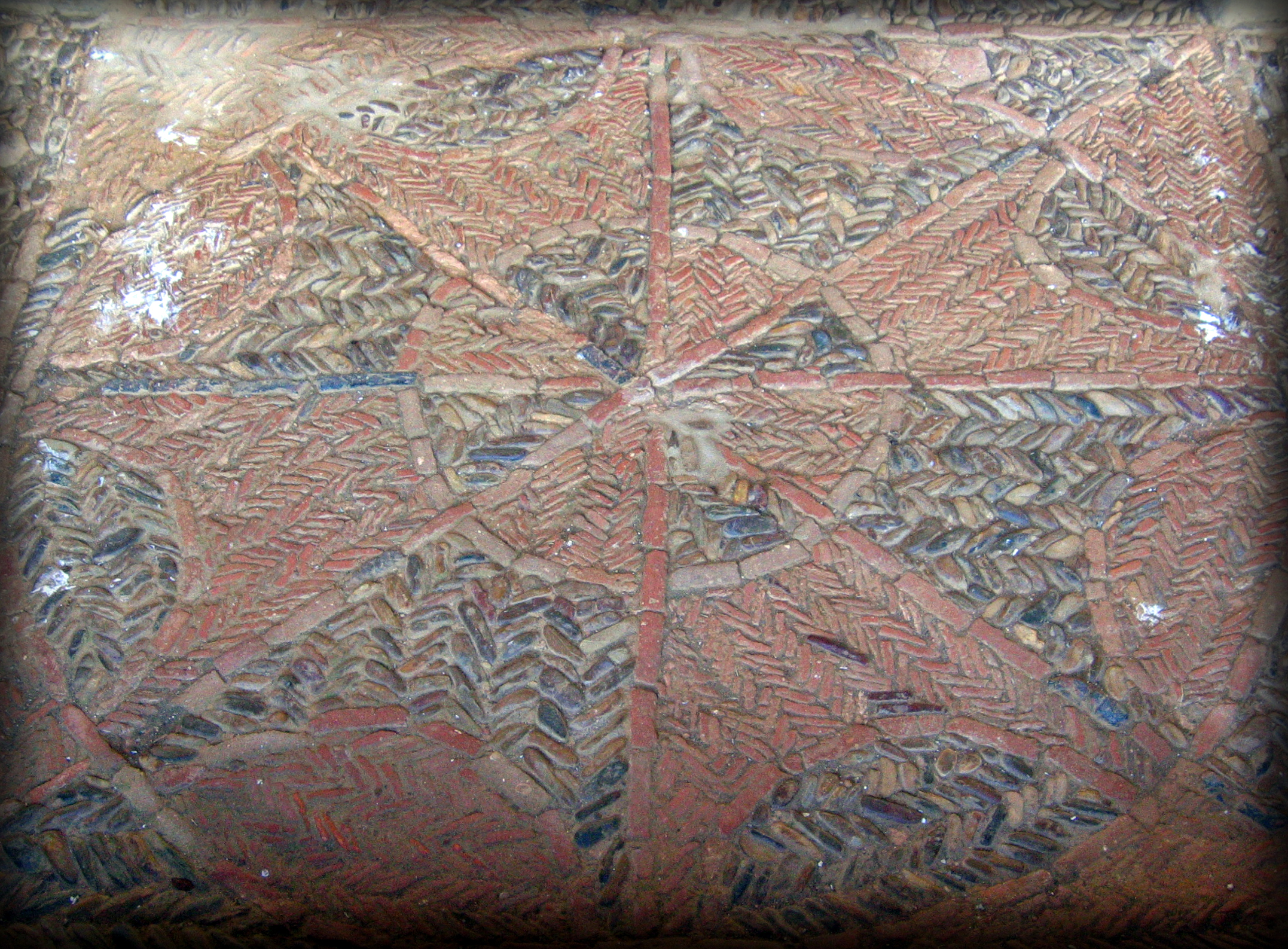 Church of Saint Michael in Valcabadillo (Palencia, Castile and León).